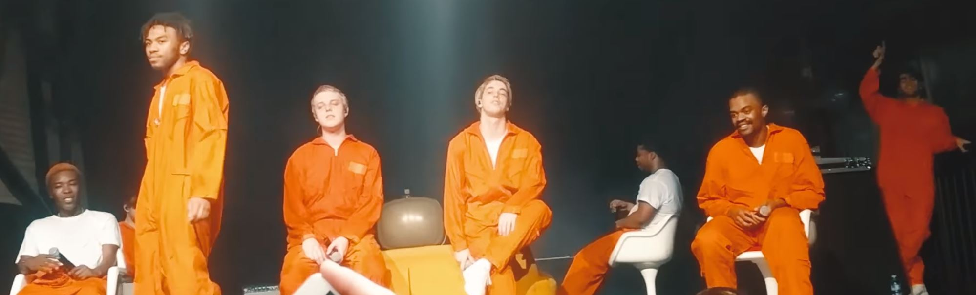 Cropped video still of Brockhampton performing at Music Hall Minneapolis in February 2018